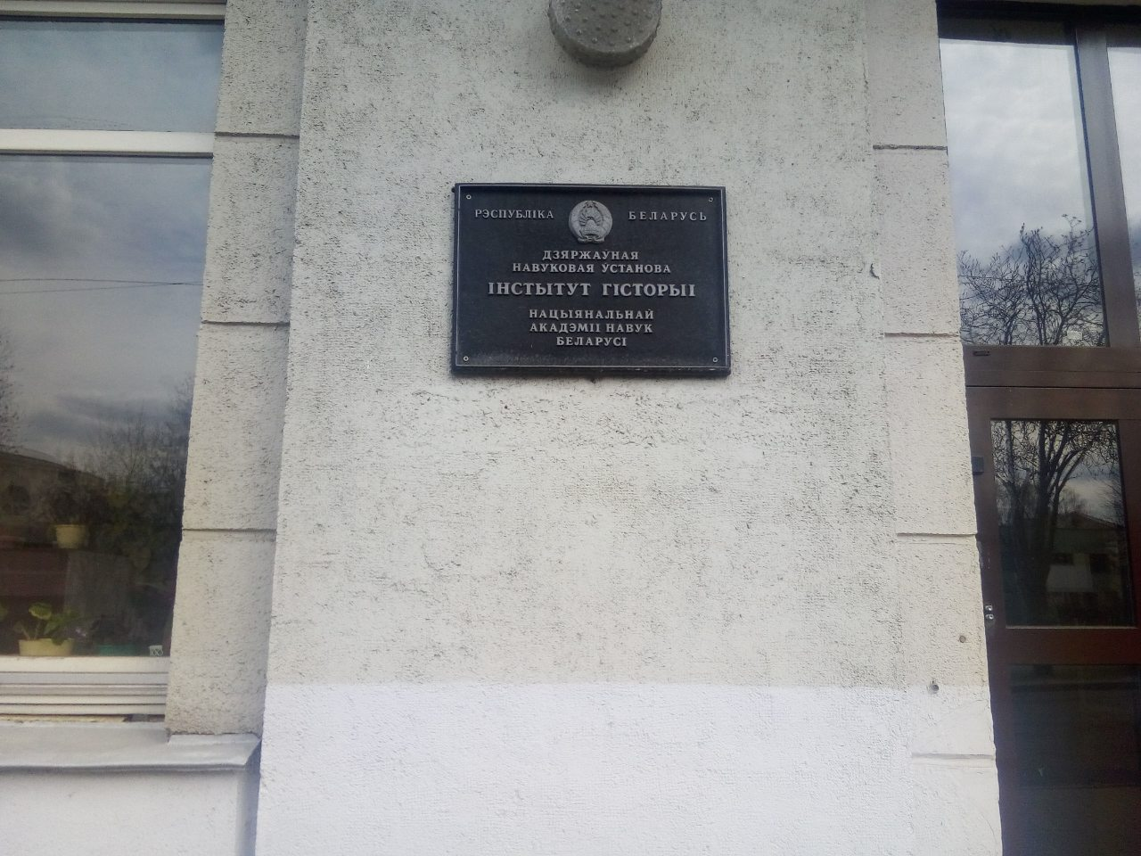 Plaque on the Institute of History of the National Academy of Sciences of Belarus (1 Akademičnaja Street, Minsk; 20th of April, 2019)